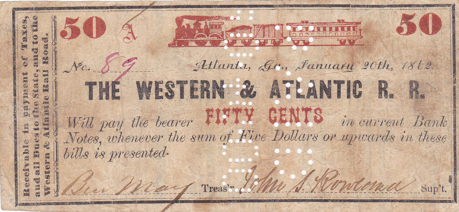 Signed by John S. Rowland, 1862